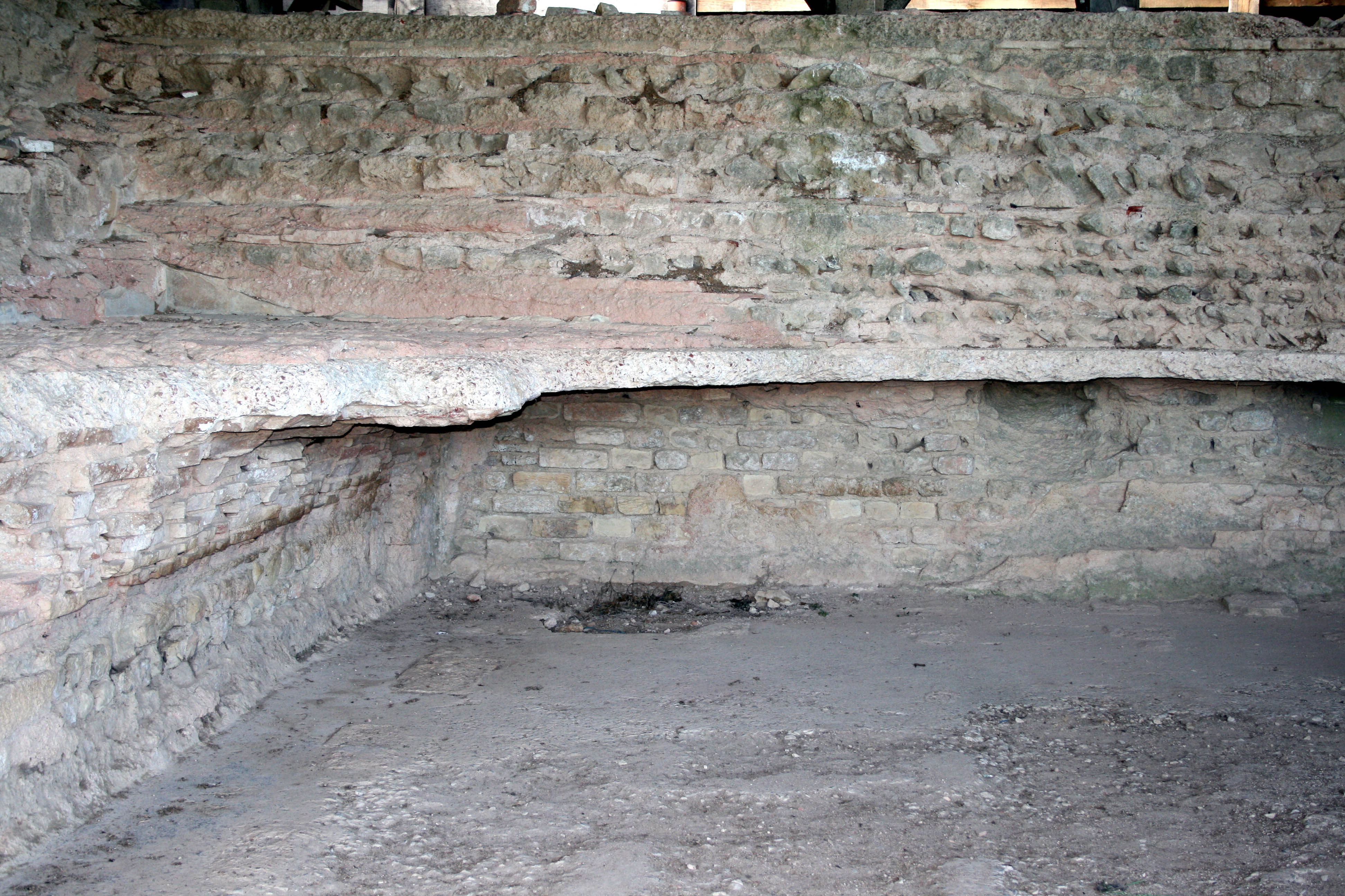 Thermes romains de Sanxay